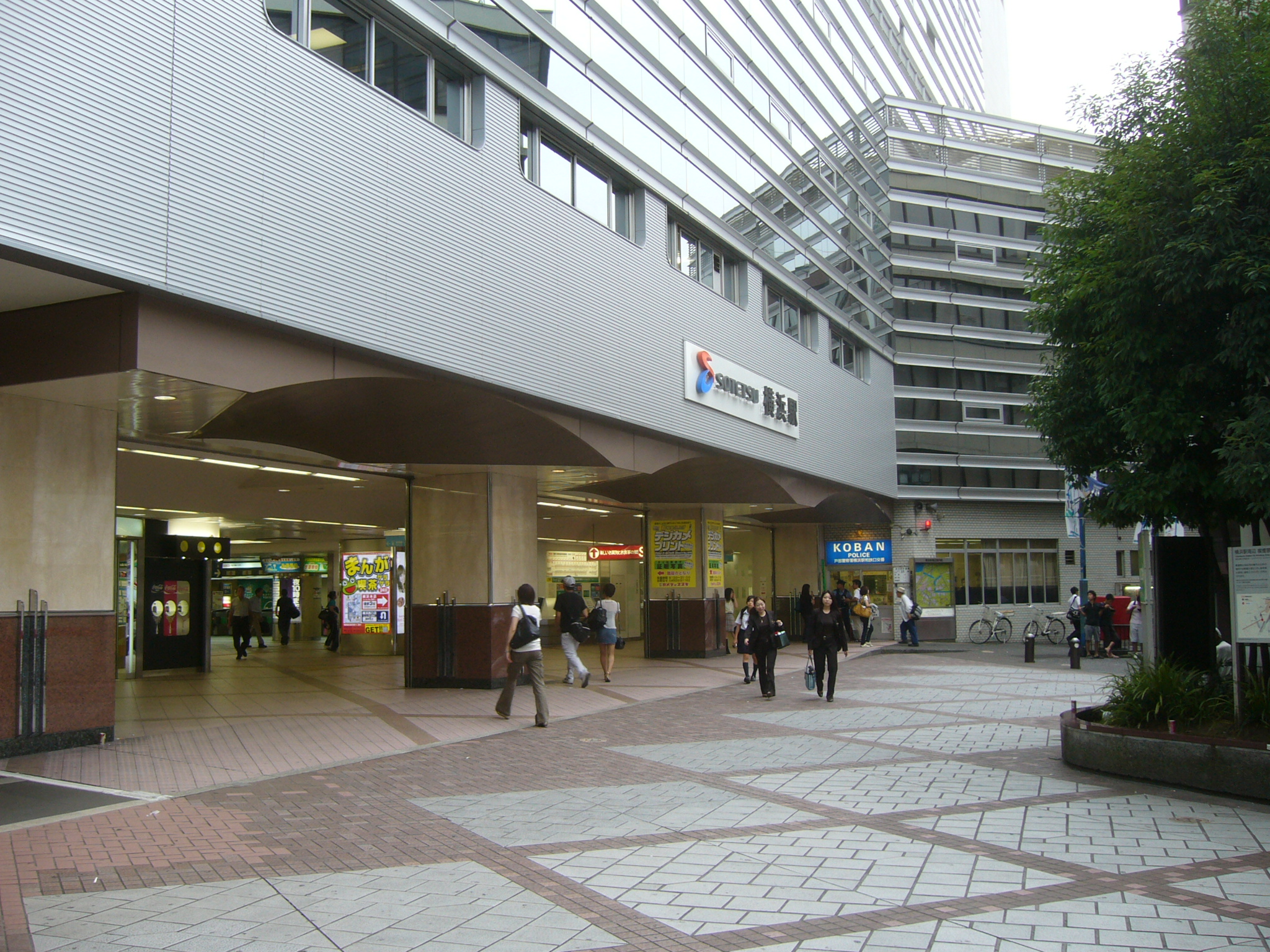 S.West exit of Yokohama station(Sotetsu exit).